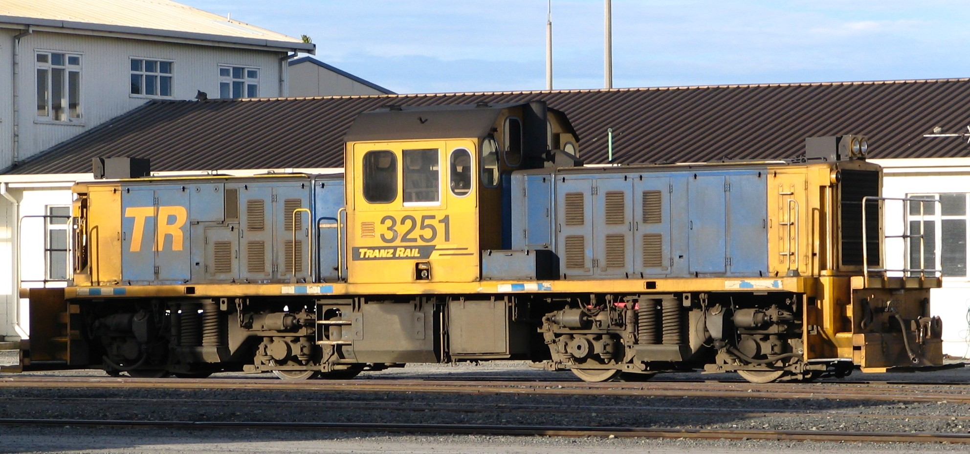 NZR DSG class diesel-electric shunting locomotive 3251 at Dunedin, New Zealand; own photo